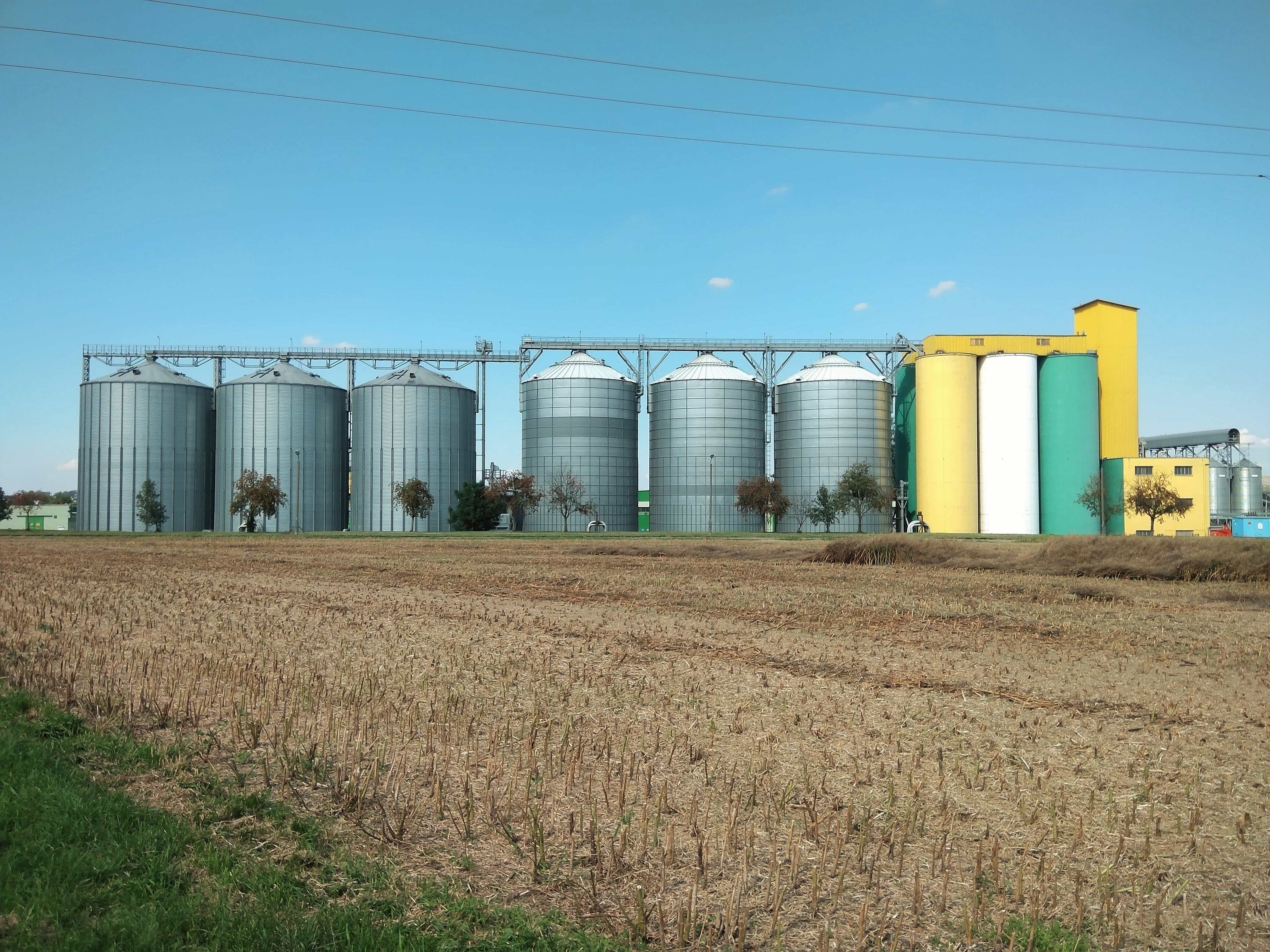 State Agricultural Conglomerate in Kietrz/Katscher, Upper Silesia, Poland